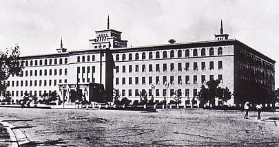 Manchukuo Telegraph and Telephone Company